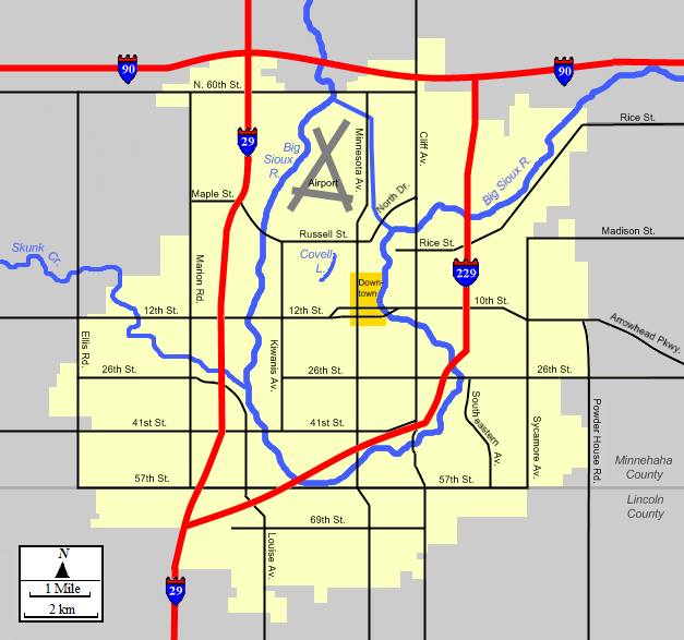 General map of the primary geographic features, roads, and boundaries of Sioux Falls, South Dakota, USA